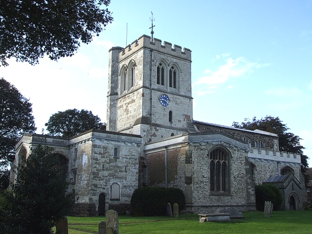 Toddington : Parish Church of St. George of England This is a view of 578849 taken from the northern tip of the churchyard looking in a south-southeasterly direction. Churches are normally aligned in an east-west direction with the chancel at the east end, but, as can be seen from the map this church lies in a more NE/SW orientation - perhaps due to local magnetic variations causing thirteenth century compasses to misread, or perhaps for more pragmatic reasons such as the lie of the land.